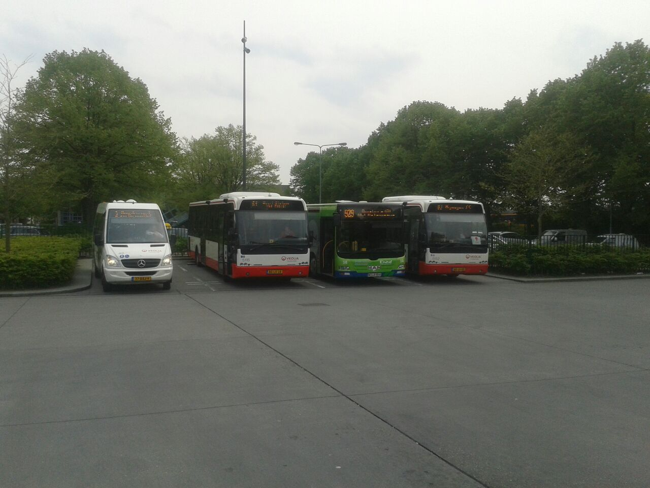 Several Veolia and a NIAG bus at Venlo station.